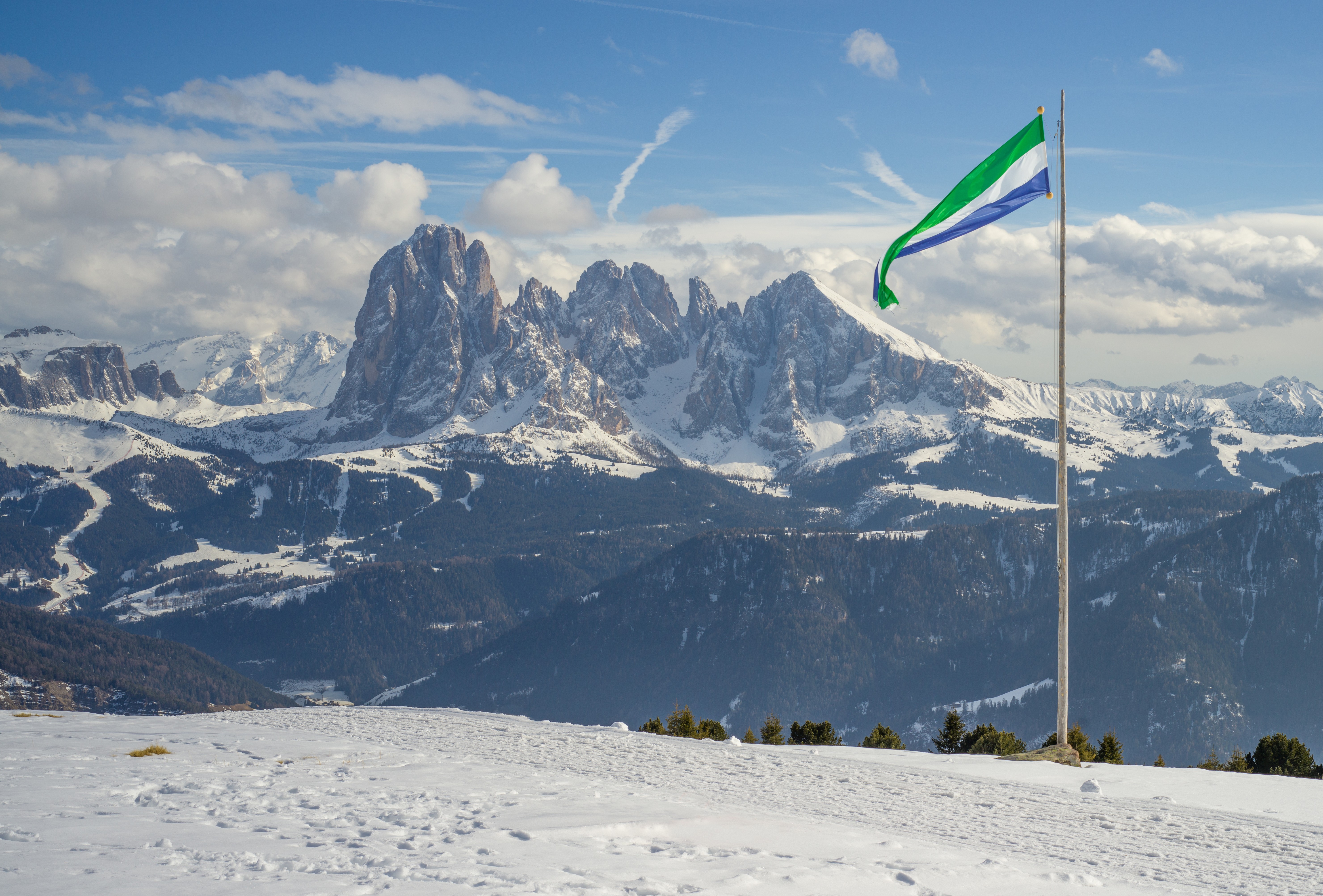 The Ladinia flag at the Resciesa hut in the Dolomites. In the background the Langkofel group